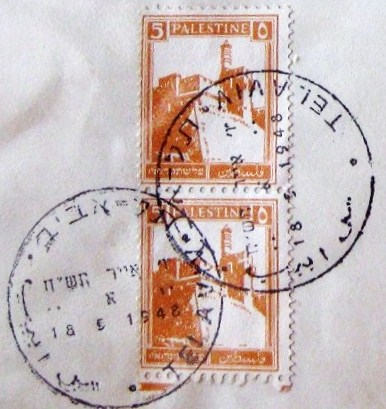 a stamp of the Mandat Period in Palestine. David Tower of Jerusalem. 5 mill